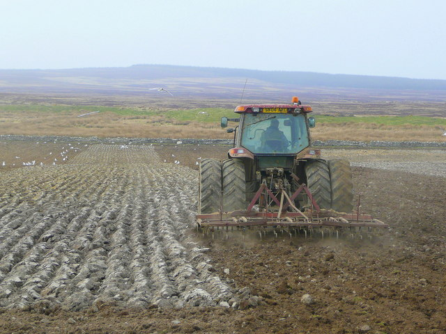 Harrowing at Raggra near to Gansclet, Highland, Great Britain.